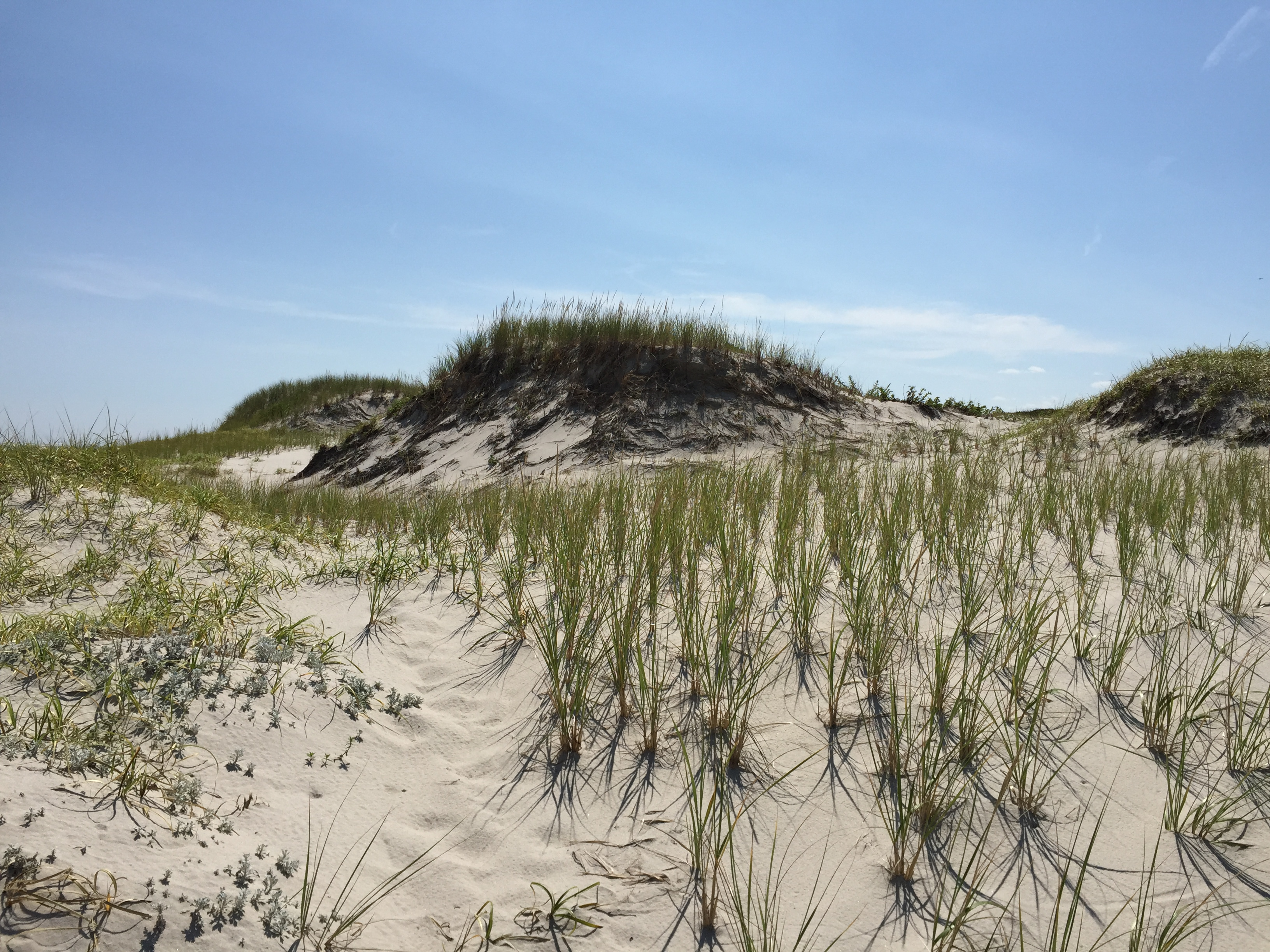 Sand dunes near the south end of Shore Road within the Southern Natural Area of Island Beach State Park, in Berkeley Township, Ocean County, New Jersey